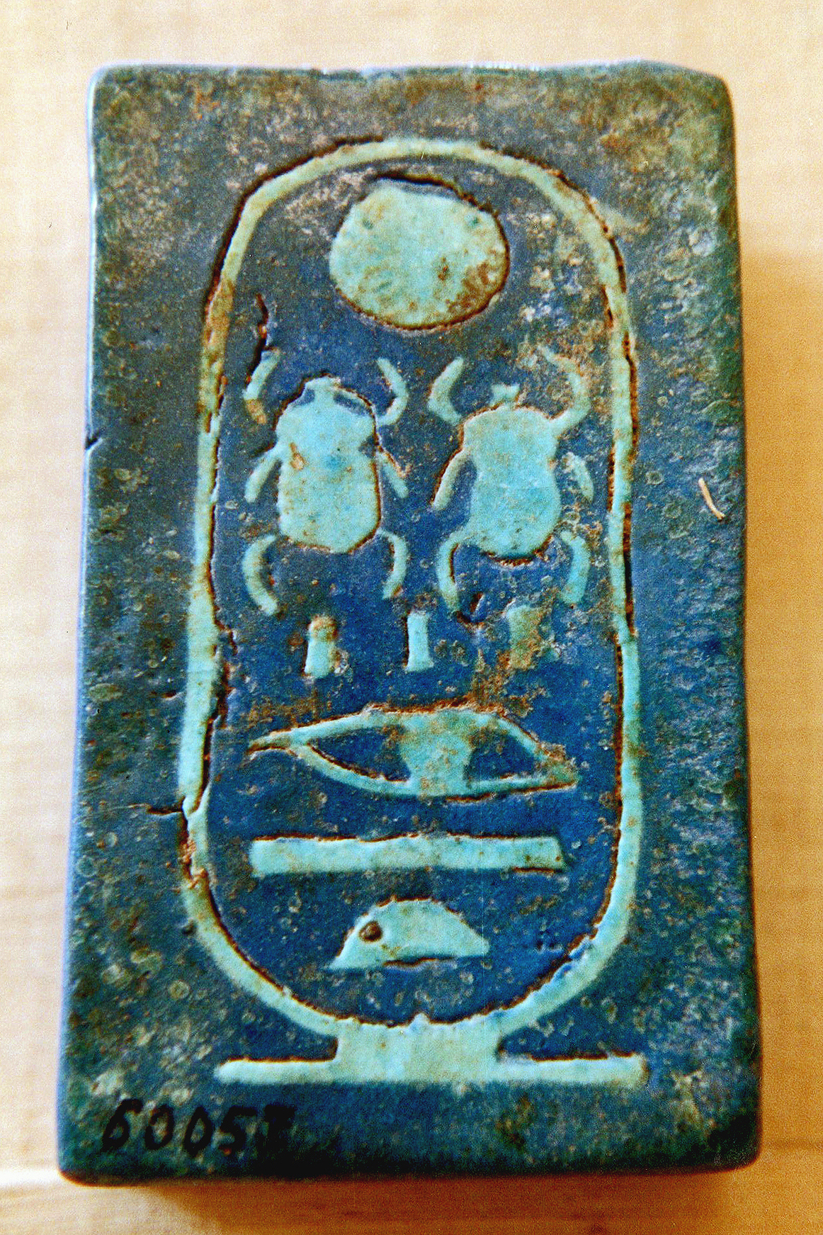 Faience plate bearing the cartouche of pharaoh Kheperkheperure-Irmaat Ay, Egyptian Museum, Cairo 60057